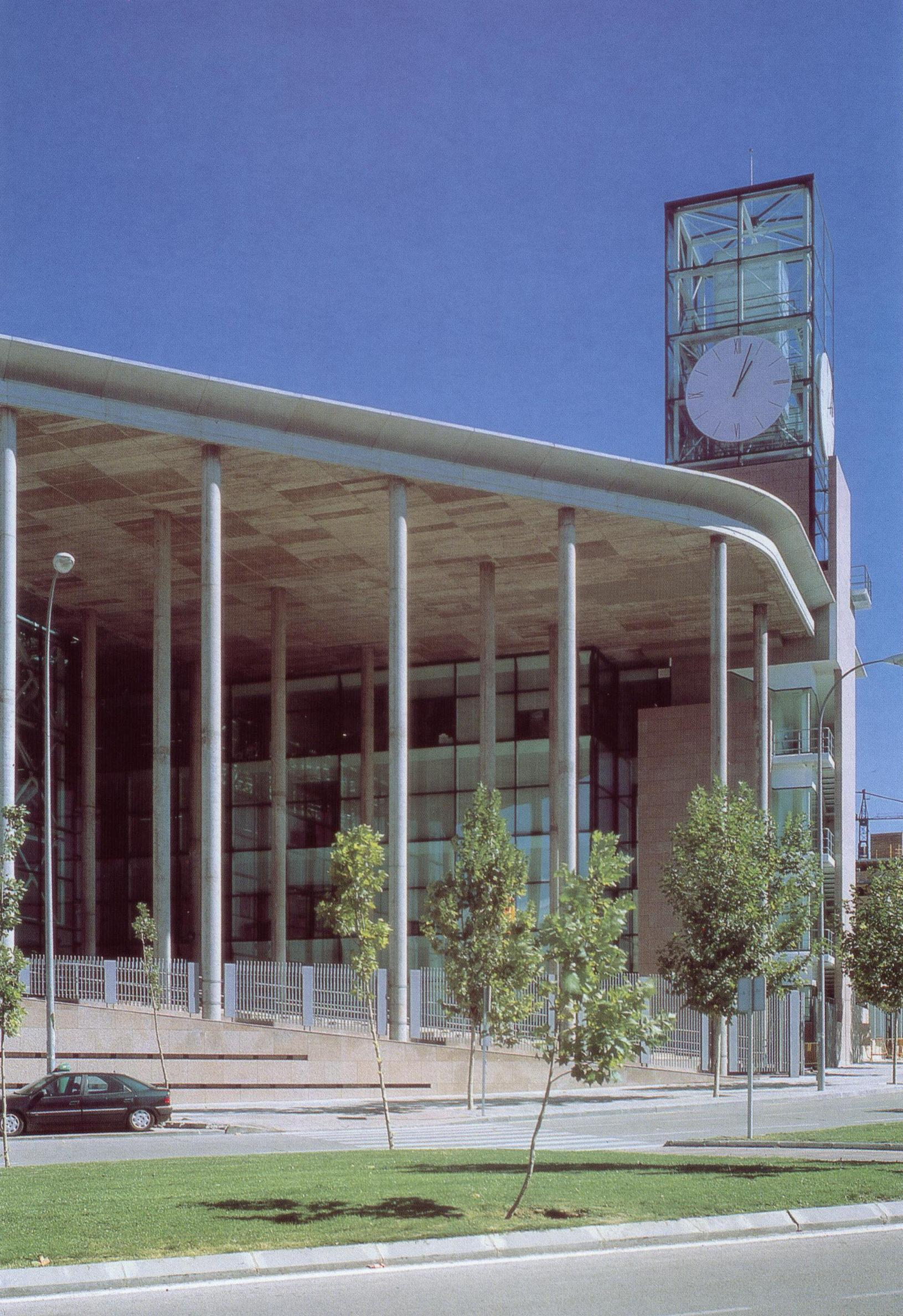 Façade of the Madrid Assembly, in Puente de Vallecas district in Madrid (Spain). Address: 1st Plaza de la Asamblea de Madrid (square). Building was projected by Ramón Valls and Juan Blasco and inaugurated in 1998.